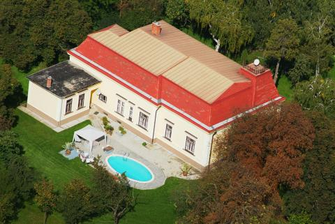 Mansion Barcza in Magyargencs, Hungary, aerialphotography